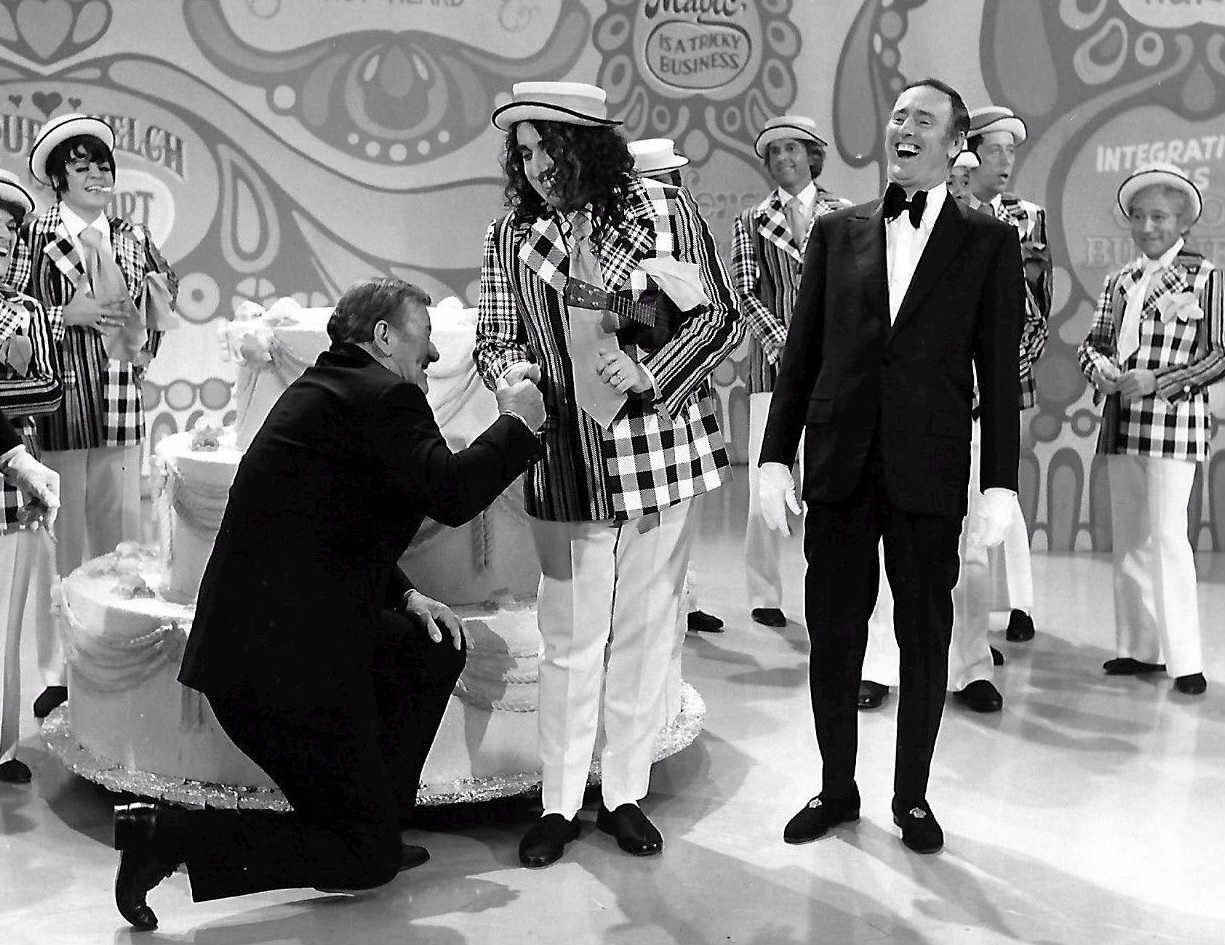 Publicity photo from the 100th episode of the television program Rowans & Martin's Laugh-In. Guest stars are John Wayne and Tiny Tim. Host Dick Martin is pictured, along with past and present cast members from the show. Visible in the background are Ruth Buzzi, Joanne Worley, Alan Sues, Dennis Roy Allen, and Henry Gibson.